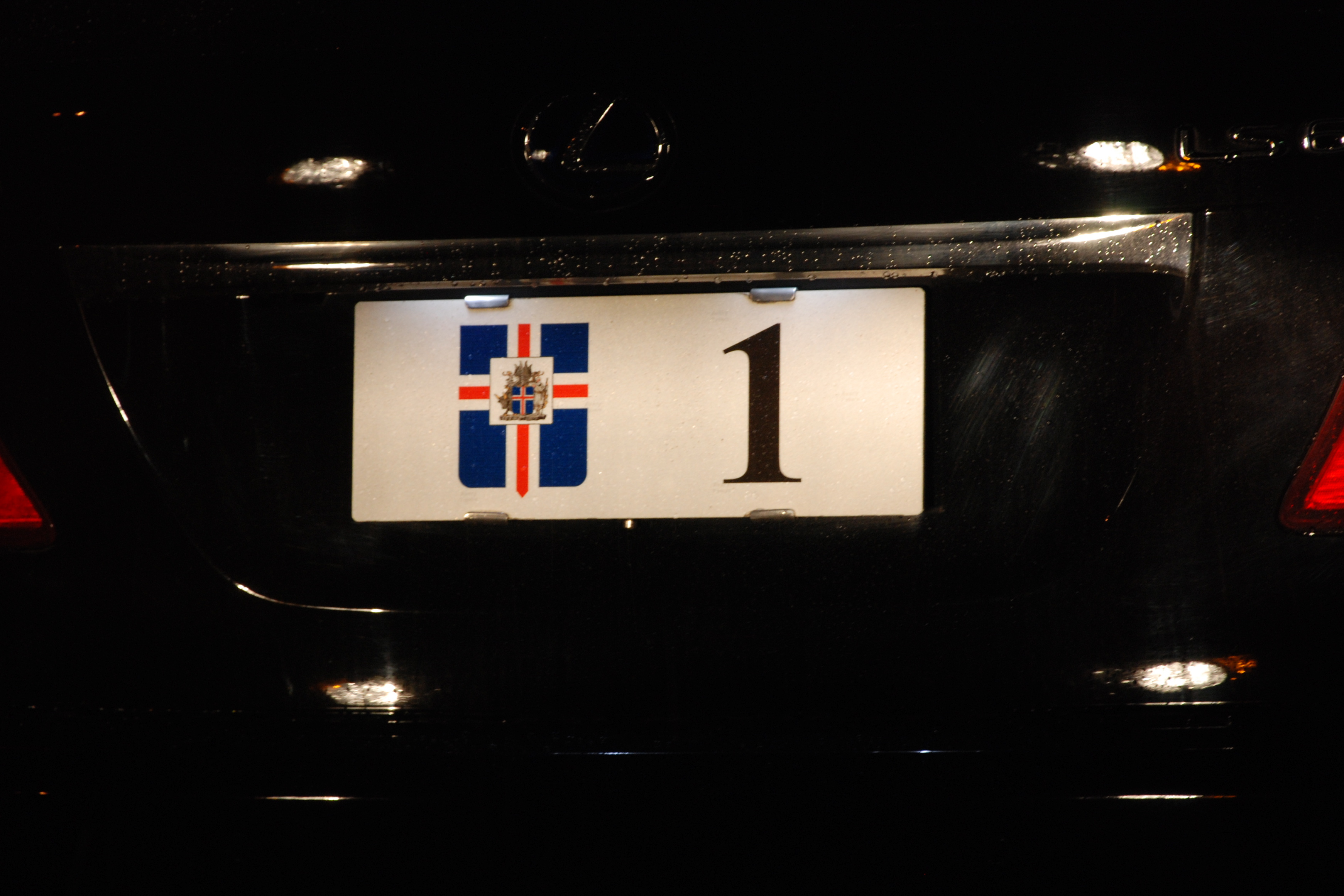 Plate of the President of the Icelandic State